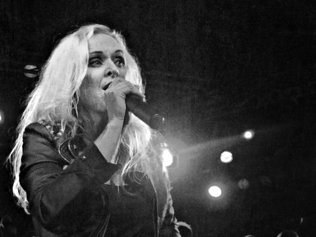 Liv Kristine presents "Vervain" at Rockfabrik Ludwigsburg